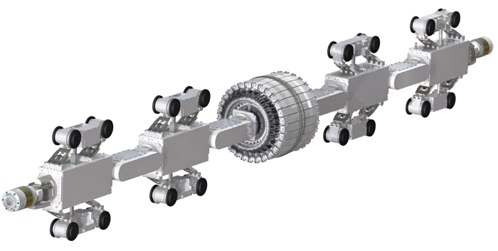 Pipetel Explorer tetherless NDT pipeline crawler